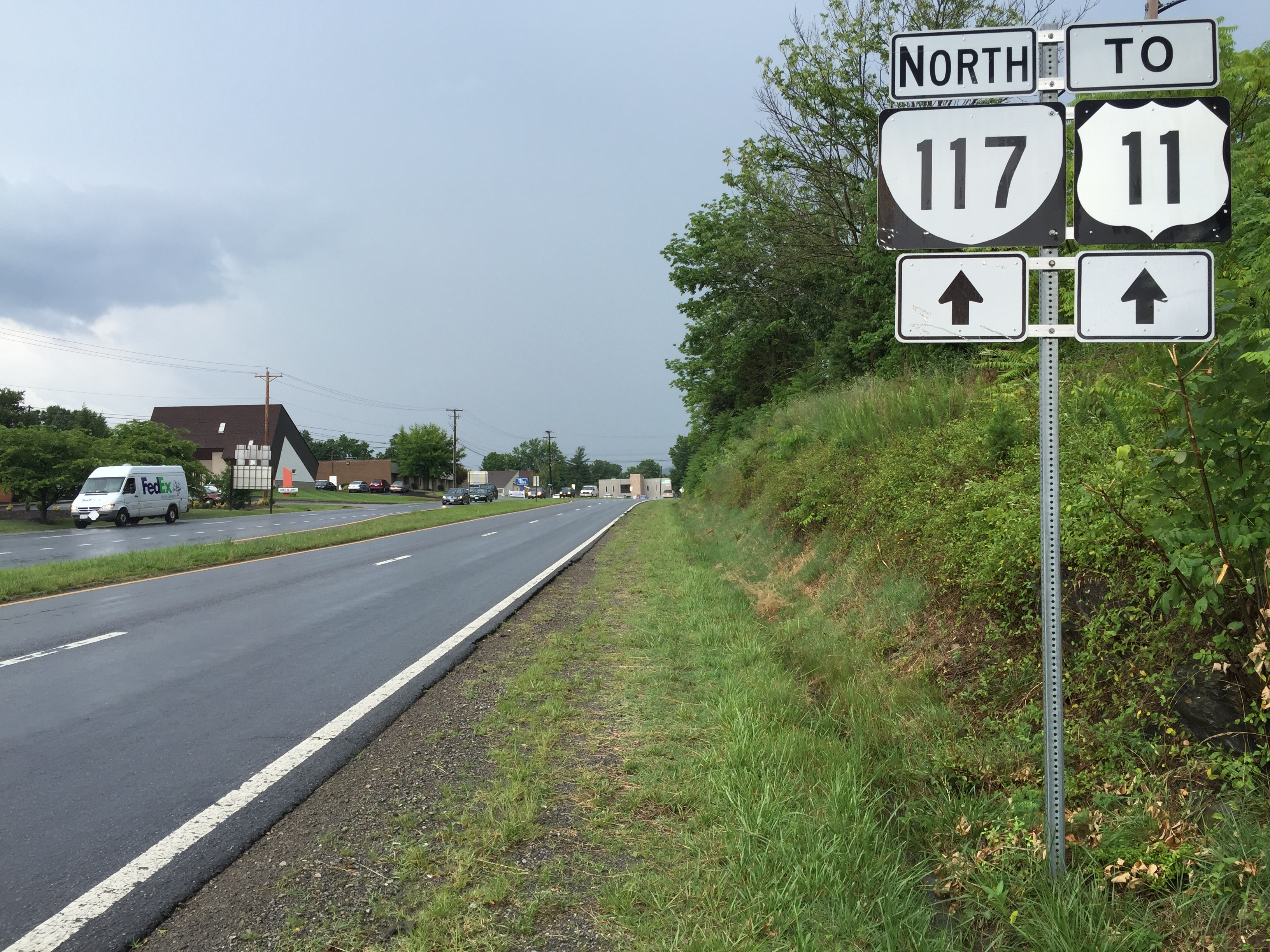 View north along Virginia State Route 117 (Peters Creek Road) at Virginia State Route 118 (Airport Road) in Hollins, Roanoke County, Virginia